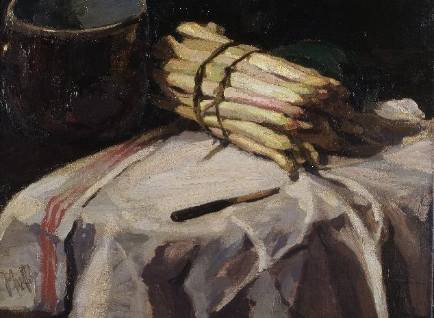 Helene von Beckerath Stillleben mit Spargeln unbekanntes Jahr (19. Jahrhundert)